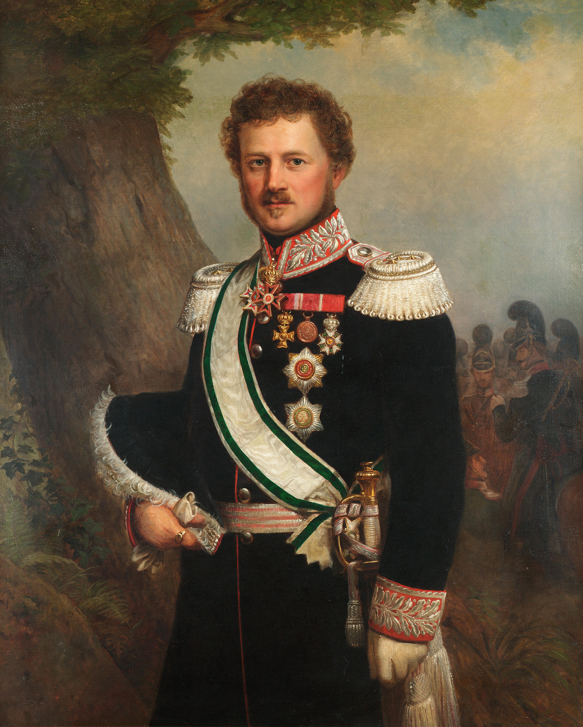 Prinz Emil von Hessen und bei Rhein (1790–1858). In a General's uniform of the Grand Duchy of Hessen (prior to 1852). The orders and decorations he wears have been identified by the Bayerisches Armeemuseum as follows: Neckbadge 1: Grand Cross of the Order of Wilhelm, Hesse Kassel Neckbadge 2: Commander's Cross of the Order of Ludwig Chest Medals from left to right: 1. Service Cross for Officers of 50 years service (from 1839) 2. Service Medal Hesse-Darmstadt 3. France, Legion of Honour Officer's Breastbadge Cordon = Knight Grand Cross of the Civil Order of Saxony, (Order of Merit); and lower Breastbadge: Order of the Crown of the House of Saxony Lower Breastbadge: Breastbadge of the Order of Ludwig